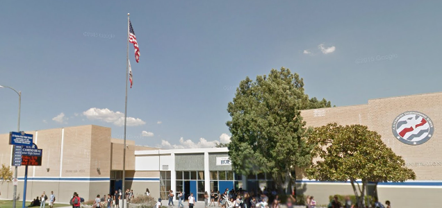 Entrance of El Camino Real Charter High School